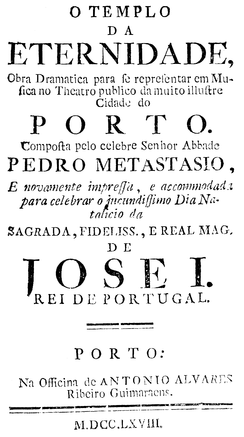 Il tempio dell’Eternità - portuguese titlepage of the libretto - Porto 1768